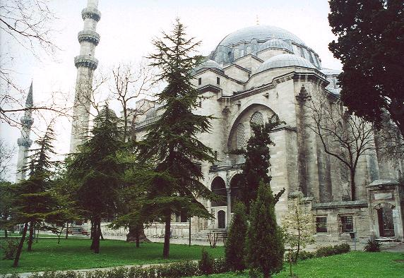 The Suleiman Mosque in Istanbul. Image taken by a person known to the uploader. That person agrees to license it under the GFDL.